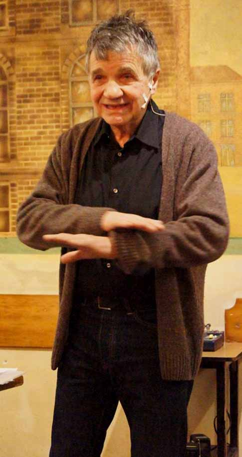 Austrian actor Klaus Rott.